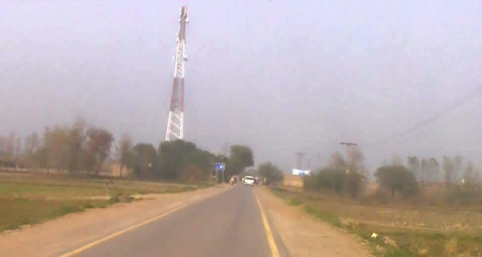 I also Uploaded this Photo on Botala Facebook Page & on website